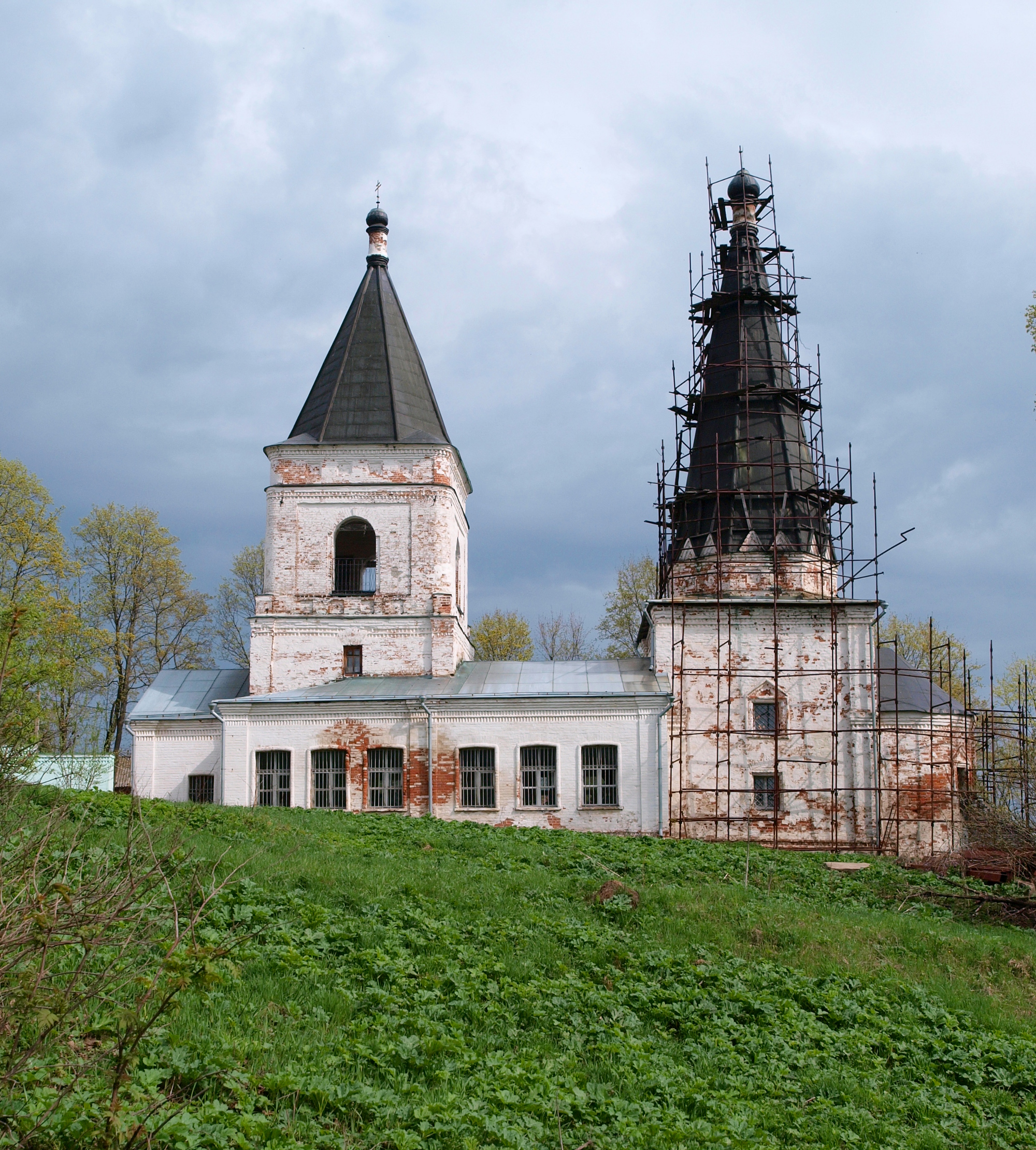 Church of Theotokos Orans in Annino, Ruzsky district, Moscow Oblast, Russia. Built by 1690 by Miloslavsky family. Belltower built in 18th century. Refectory added in 1914.